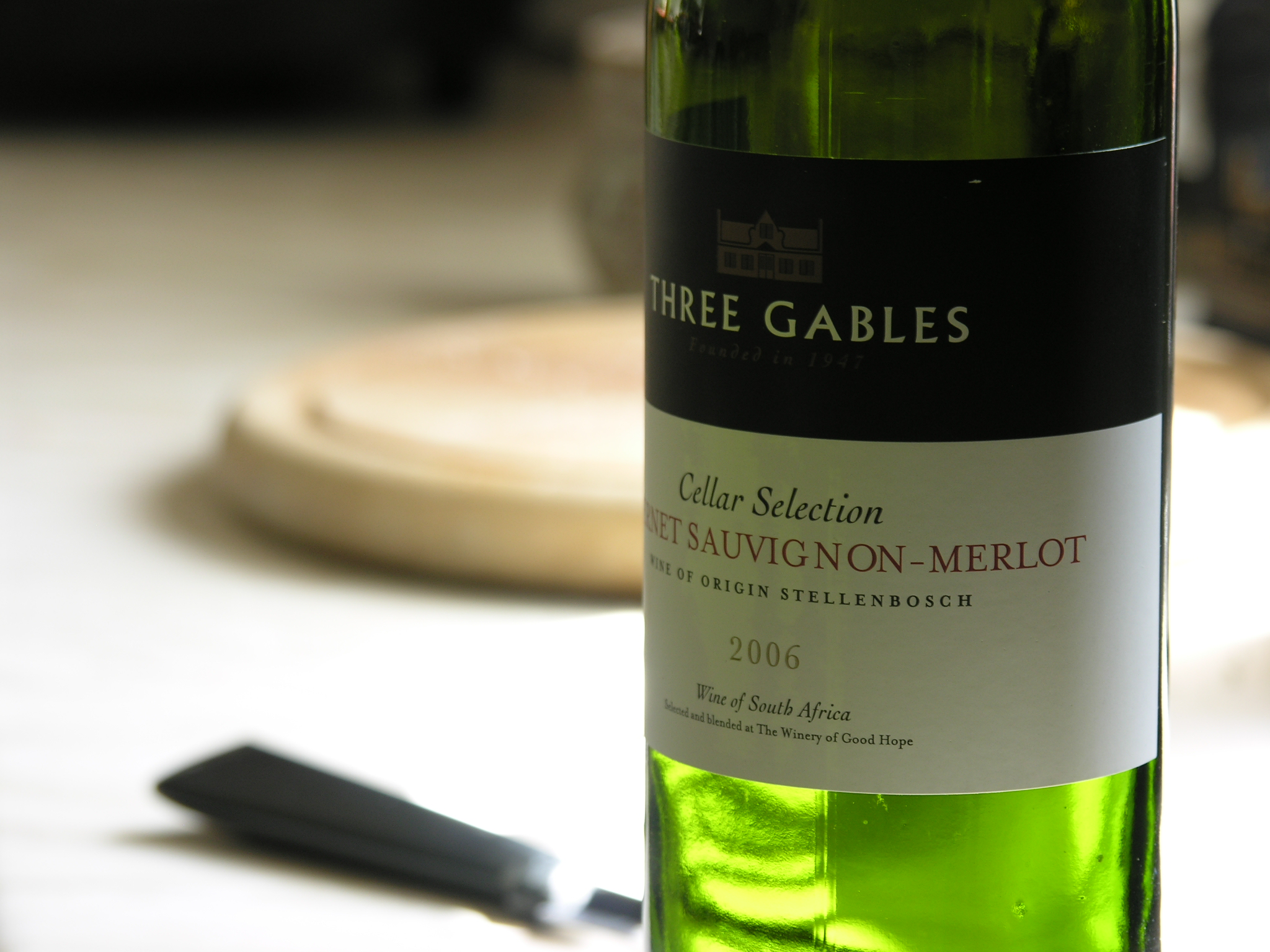 A bottle showing the translucent green of many wine bottles. A random picture of an empty bottle of wine.